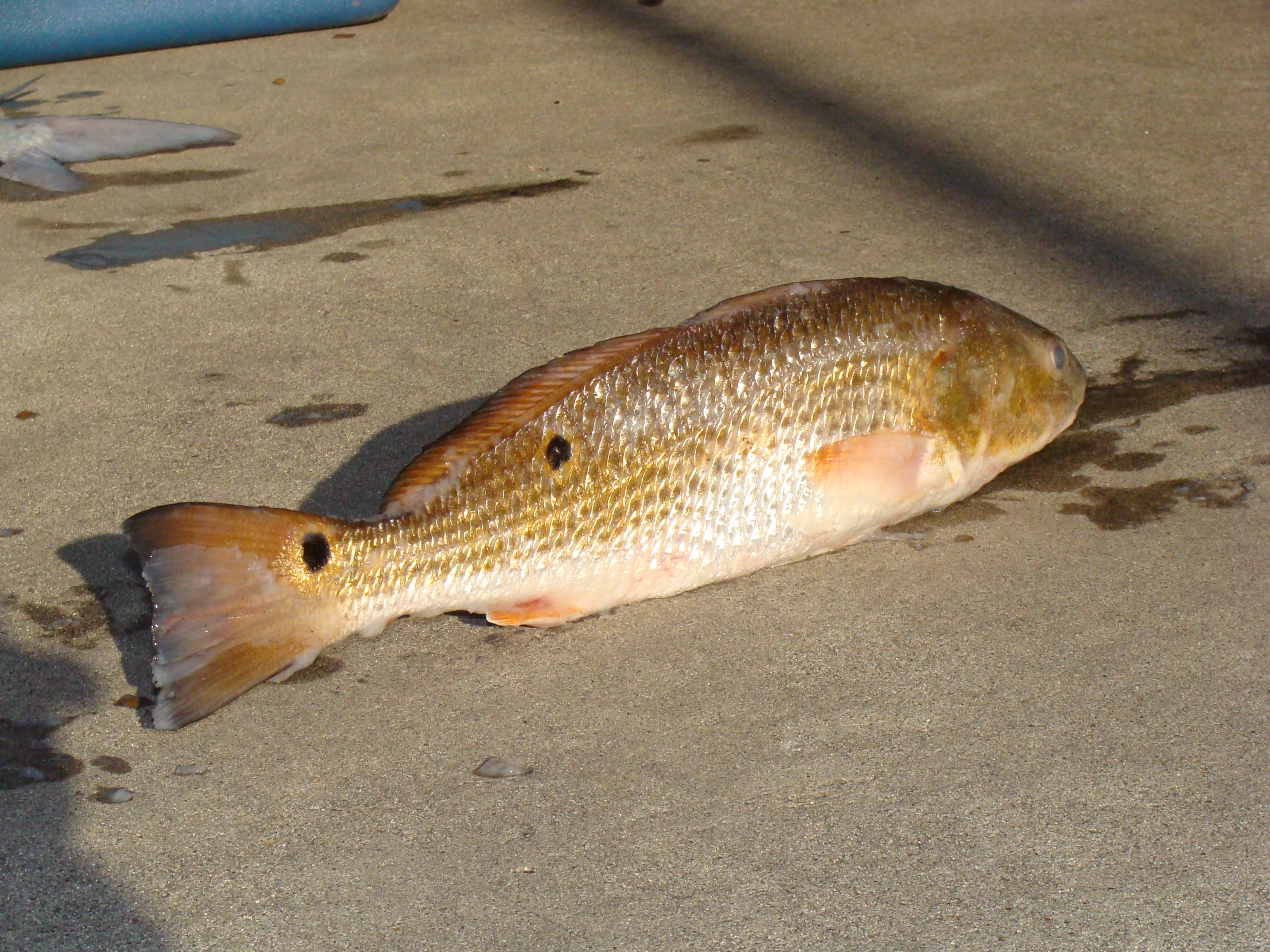 Photo of a mature Red Drum, aka redfish, channel bass or spottail bass. Caught off the Gulf Coast of Louisiana. This is a mature red drum but not a "bull red," the nickname given to red drum longer than 26 inches.